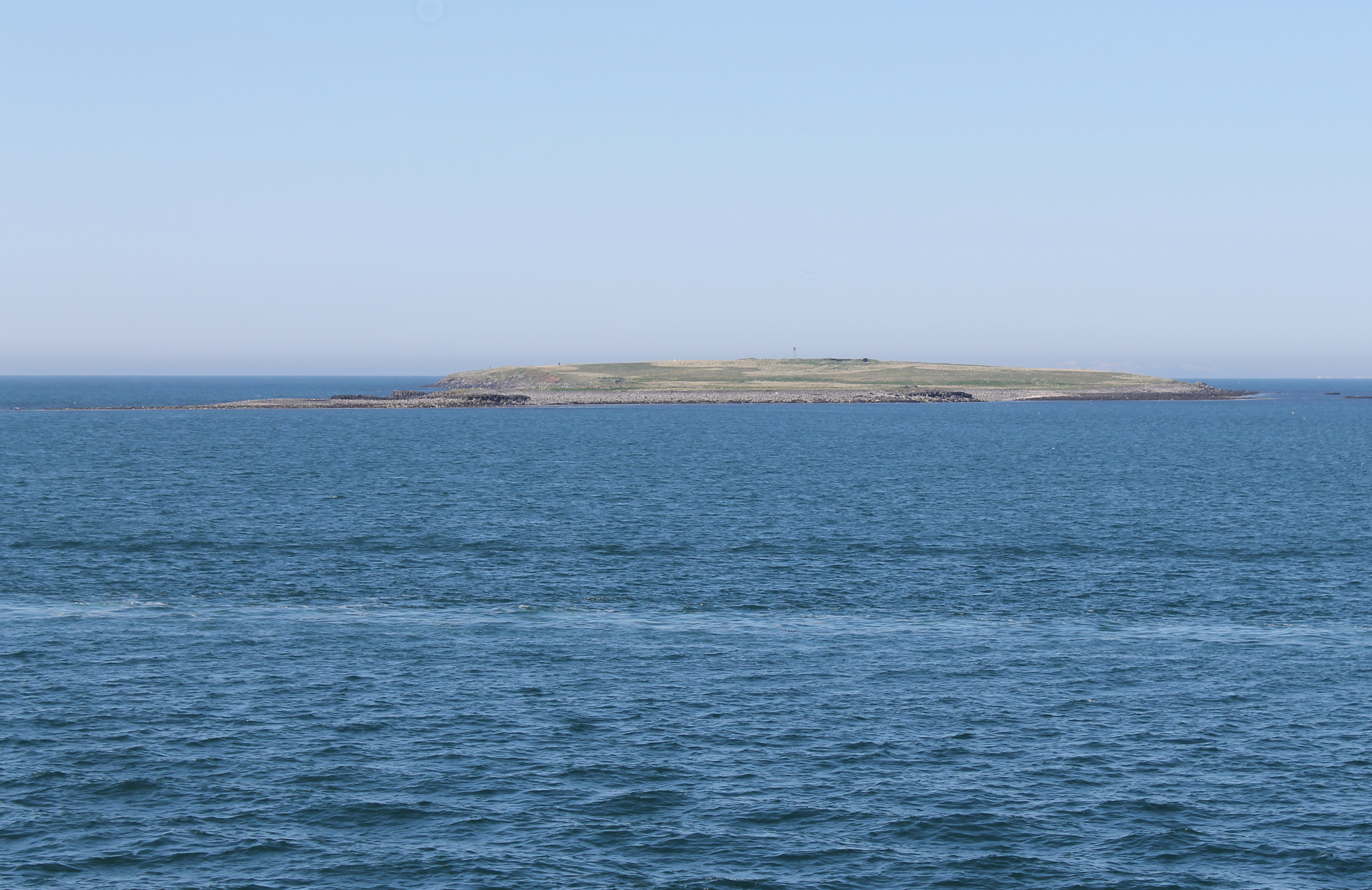 Engey, an island just north of Reykjavík, Iceland.